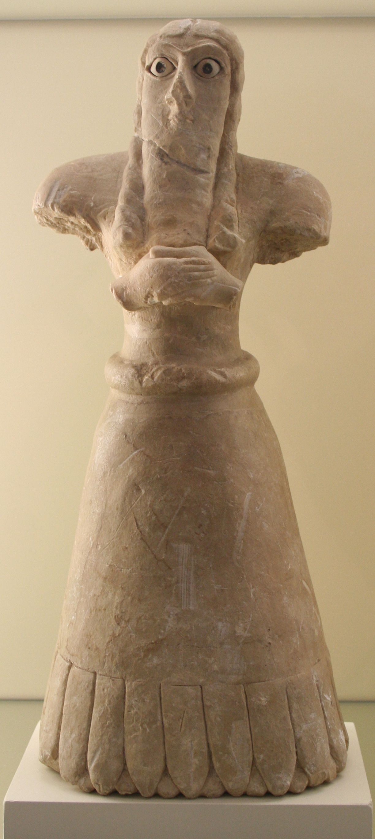 Vorderasiatisches Museum (Near East Museum), Berlin